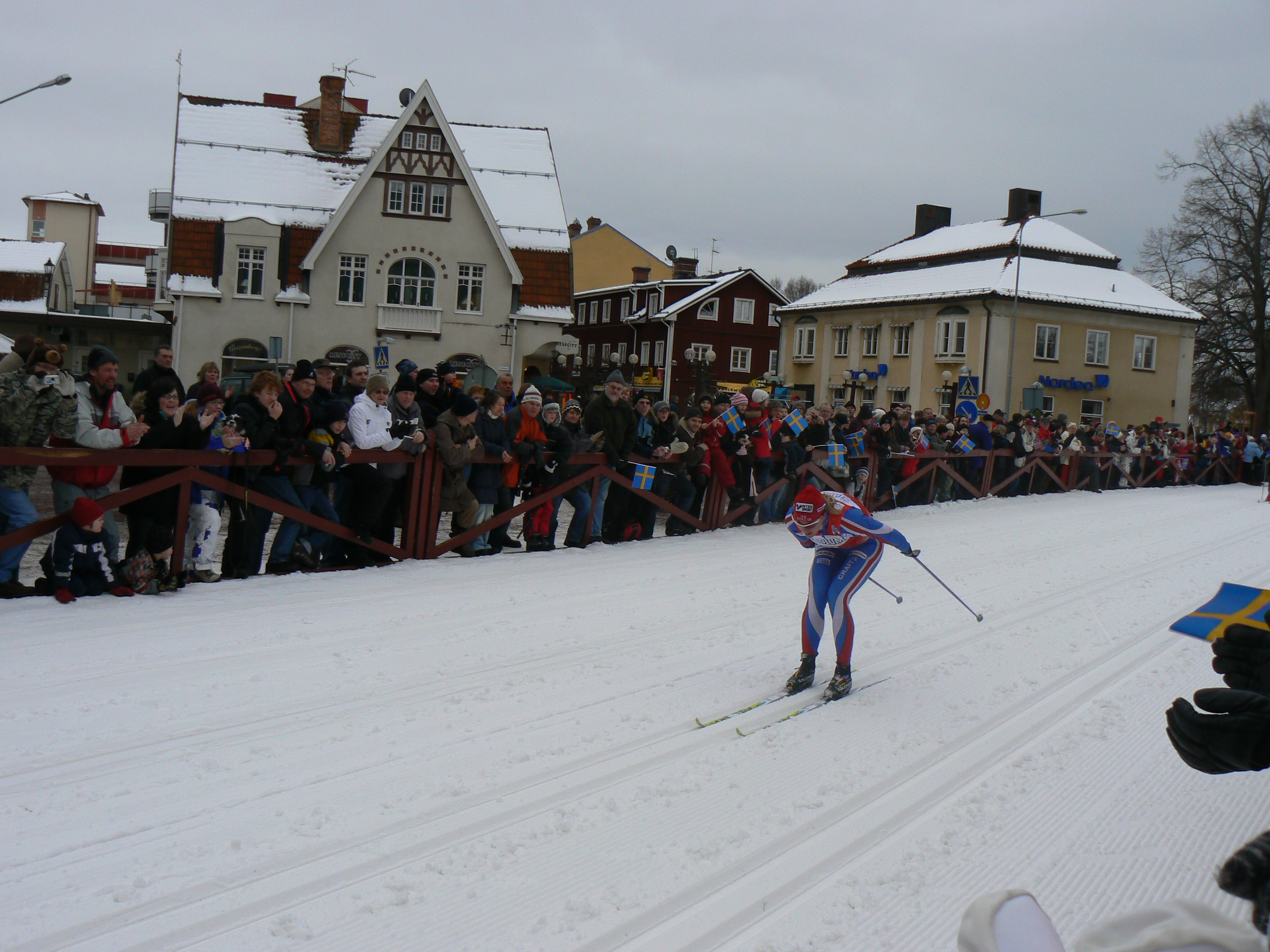 Swedish skier Elin Ek going for victory in Vasaloppet (women's class) 2007. Photo by Skvattram 2007-03-04. There is an edited version of this picture available at image:Elin Ek Edited.jpg